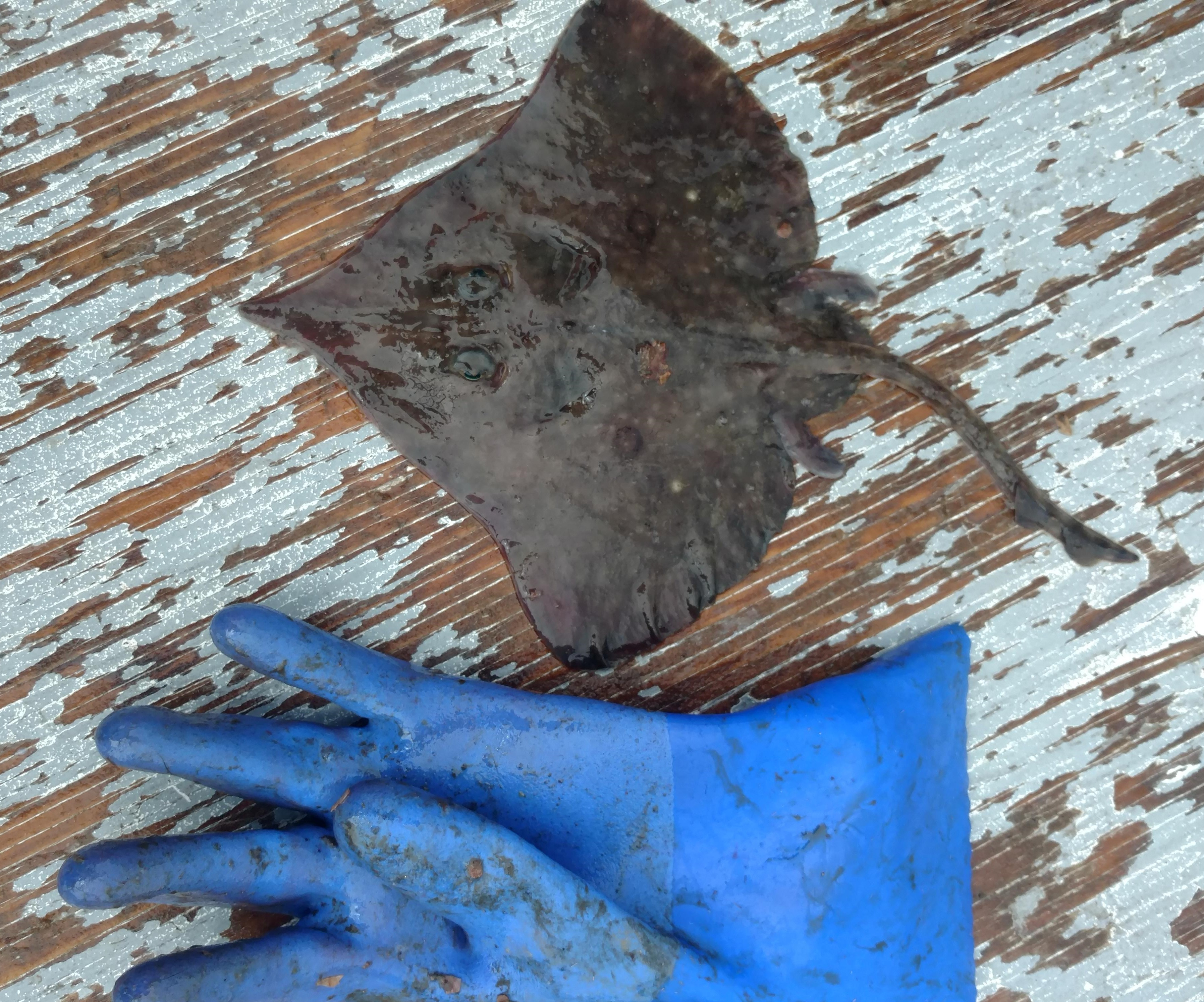 Small Longnose Skate caught off the coast of central California during a bottom trawl survey